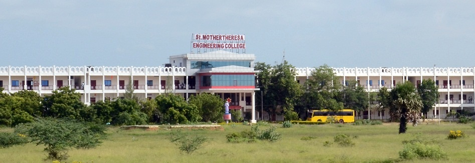 colgsmtec